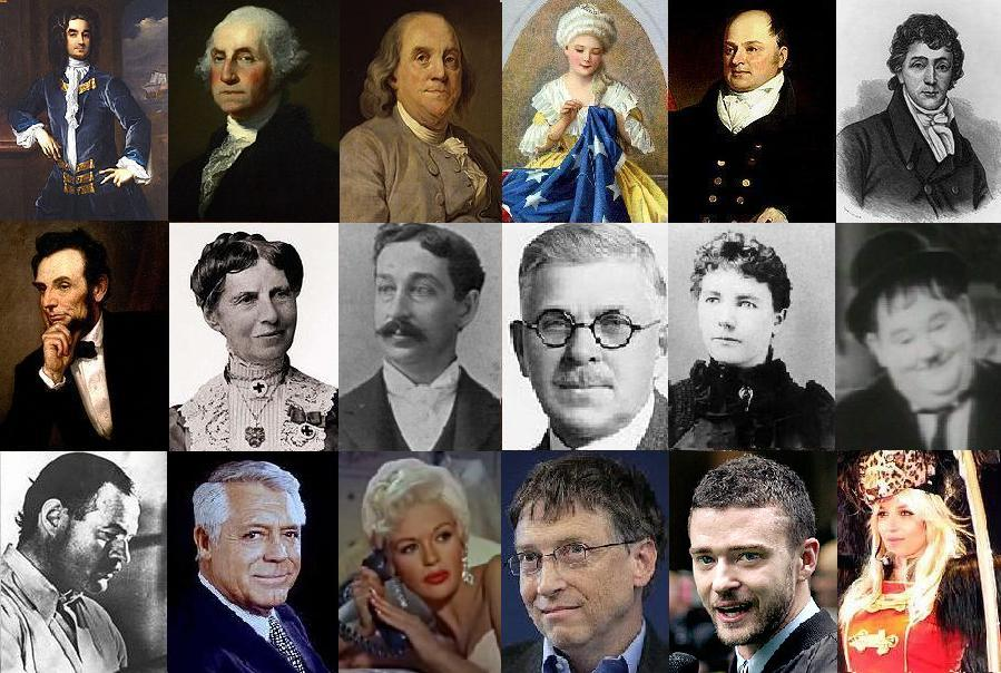 English-Americans. Anyone can use these original photos themselves among others and make another collage of (English American) people themselves or remix as they wish, as long as they give the correct source and usage/Copyright given. Dont delete the photos, if one becomes unusable due to copyright, please dont delete, just replace the photo or i will.